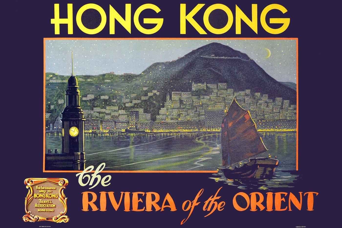 An earliest known travel poster for Hong Kong circa 1930, by S. D. Panaiotaky, issued by Hong Kong Travel Association